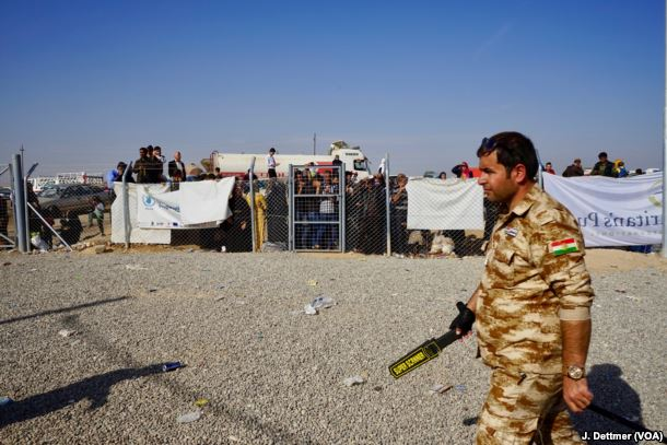 A Kurdish policeman patrols the entrance to the Khasir camp and displaced civilians sure waiting to enter the camp at Khasir.